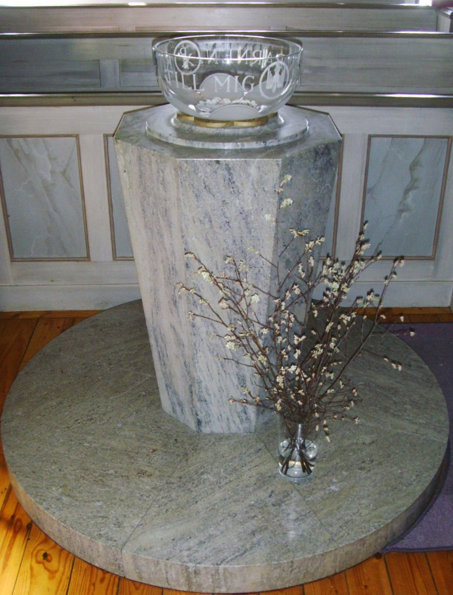 The church in Rejmyre, from 1837-1838.